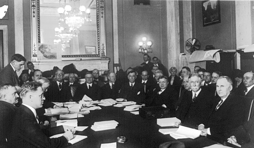 ORIGINAL SOURCE TITLE: Edward L. Doheny testifying before the Senate Comm. investigating the Tea Pot Oil Leases CALL NUMBER: LOT 12296, v. 1 [item] [P&P] Check for an online group record (may link to related items) REPRODUCTION NUMBER: LC-USZ62-51319 (b&w film copy neg.) No known restrictions on publication. MEDIUM: 1 photographic print. CREATED/PUBLISHED: 1924 Jan. 24. NOTES: Title and other information transcribed from caption card and item. In album: Washington, D.C., 1924, v. 1, Herbert E. French, National Photo Company. National Photo Company Collection (Library of Congress). No. 28779. Chron. album. Doheny, Edward Laurence, 1856-1935. Caption card tracings: Tea Pot; Congress; PI; Shelf. FORMAT: Photographic prints 1920-1930. REPOSITORY: Library of Congress Prints and Photographs Division Washington, D.C. 20540 USA DIGITAL ID: (b&w film copy neg.) cph 3a51362 CARD #: 2002695650